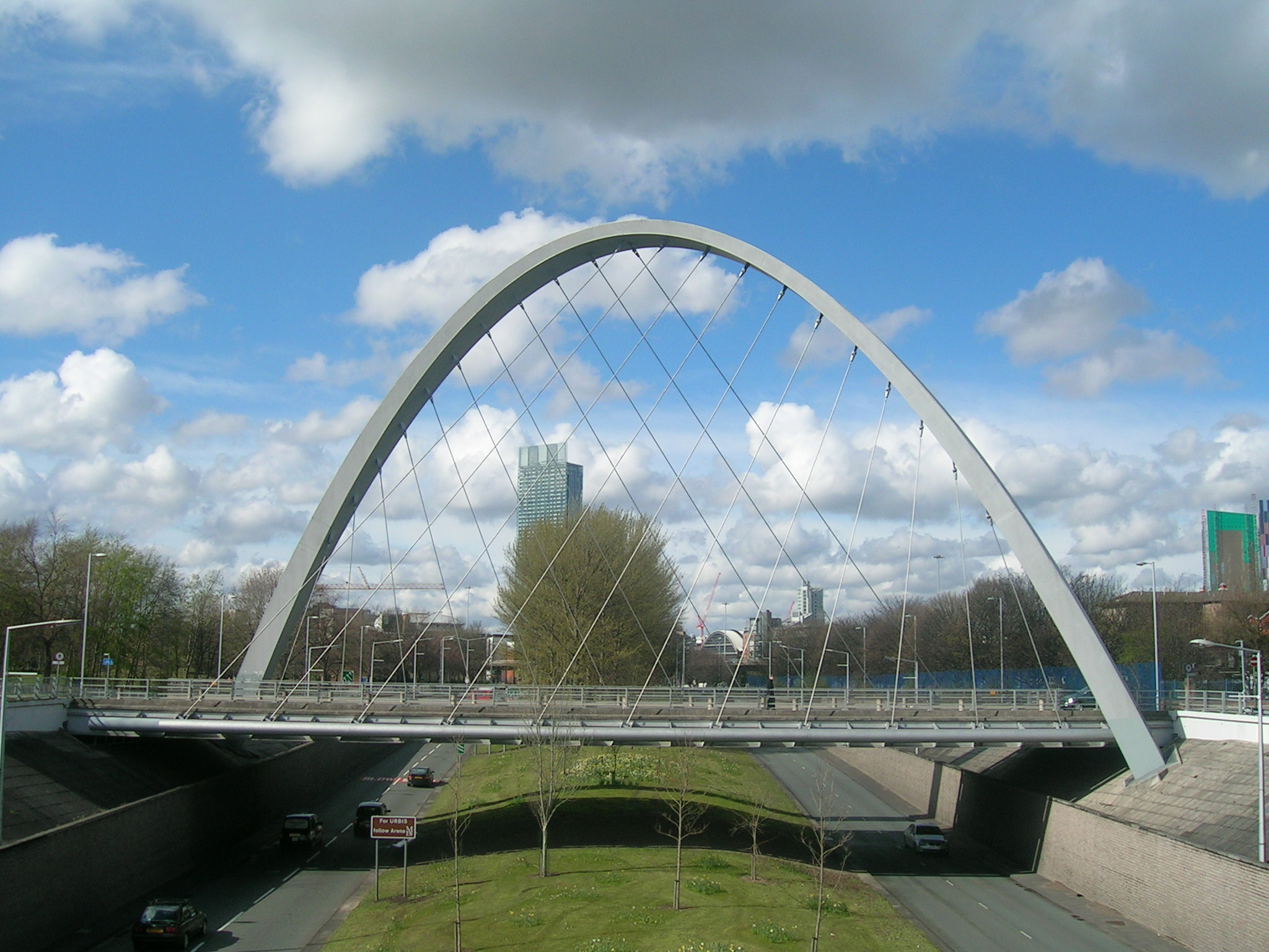 ...and the Beetham Tower ;)